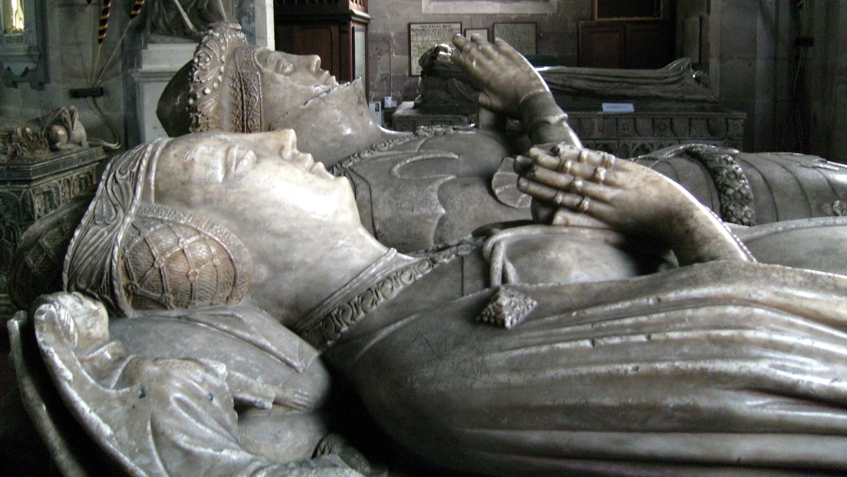 Benedicta de Ludlow (foregound) and Richard Vernon (died 1451). Through their mariage the Vernons of Haddon Hall obtained Tong. Tomb in St Bartholomew's Church, Tong, Shropshire.